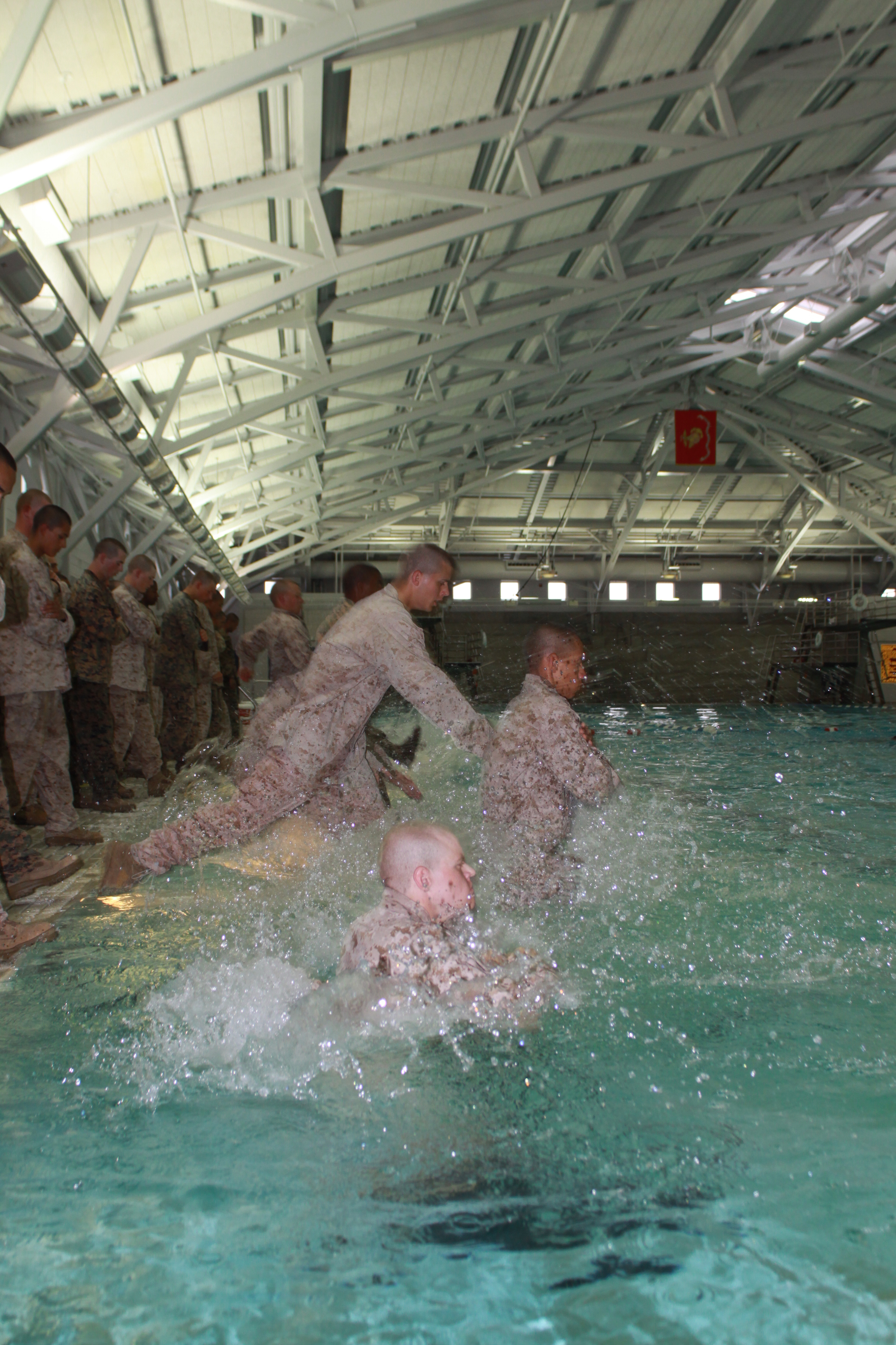 Company H recruits jump into the shallow end of the Marine Corps Recruit Depot San Diego Swim Tank April 30. Co. H started week four off with Combat Water Survival that requires them to swim in Marine pattern utilities with combat boots. They must pass multiple important water tests during this week to be able to be called a Marine.